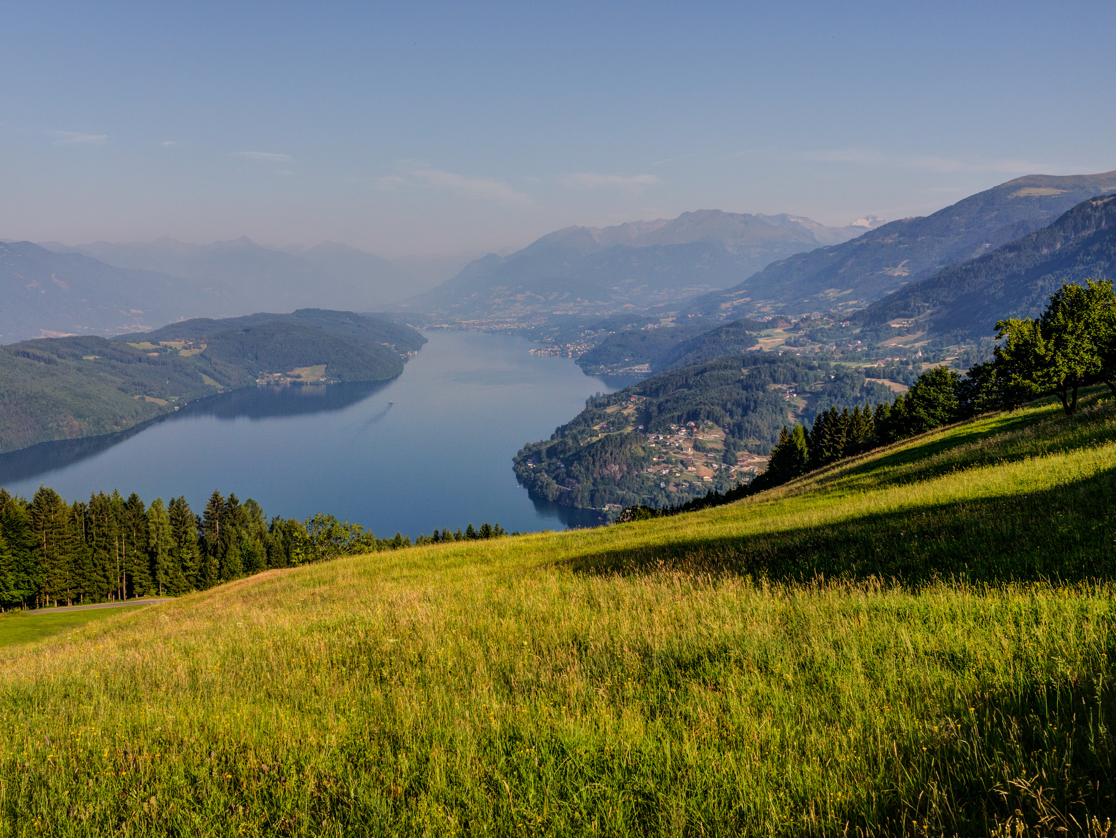 Lake Millstatt (Millstätter See), district Spittal an der Drau in Carinthia / Austria / EU. Left in the picture the sloping Goldeck, the valley of the Drava and the gentle hills of the forest near the Lake Millstatt with the bay of Lagger.